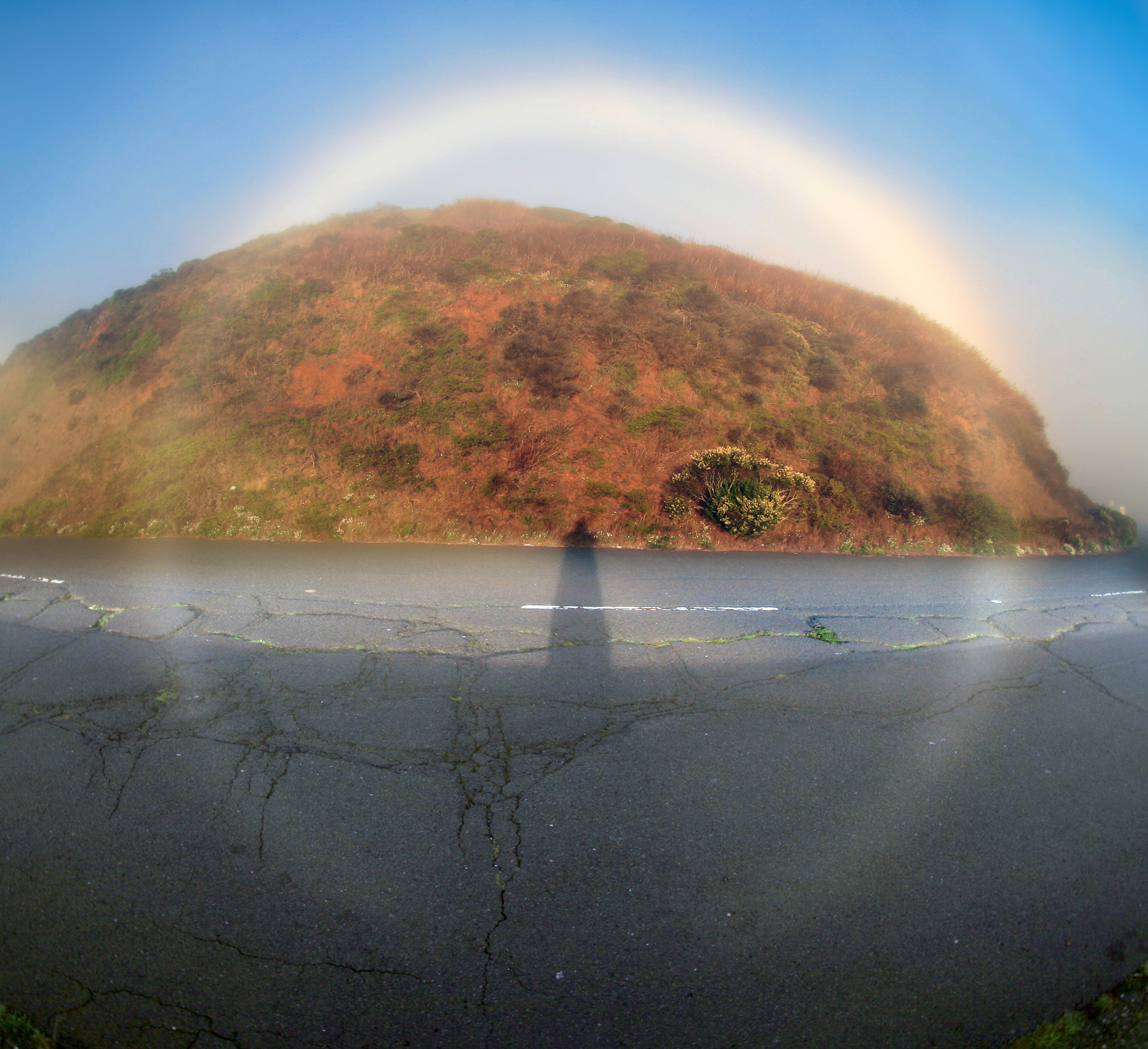 360 degrees Fog bow.